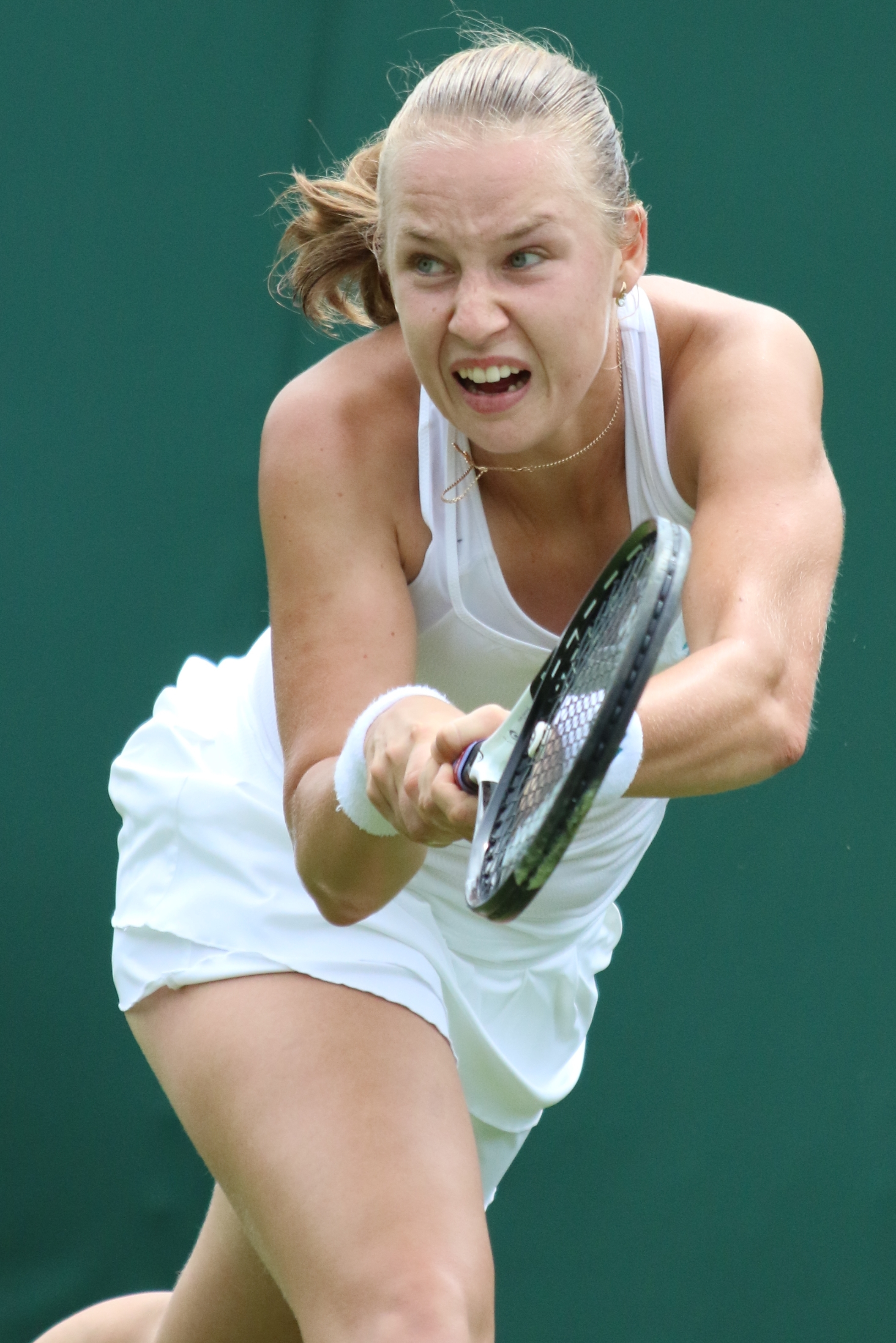 2019 Wimbledon Qualifying Tournament.